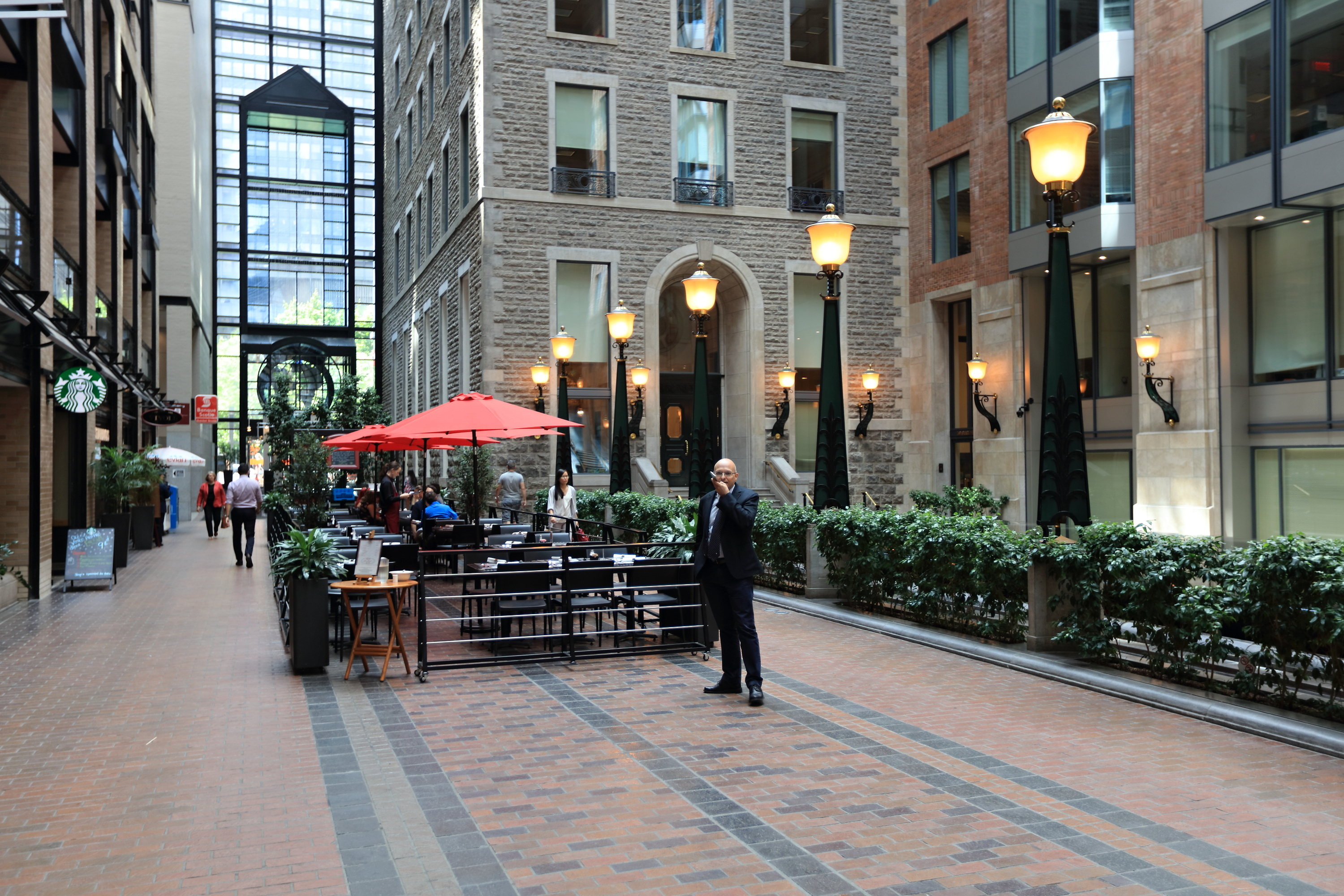 Underground City, Montréal